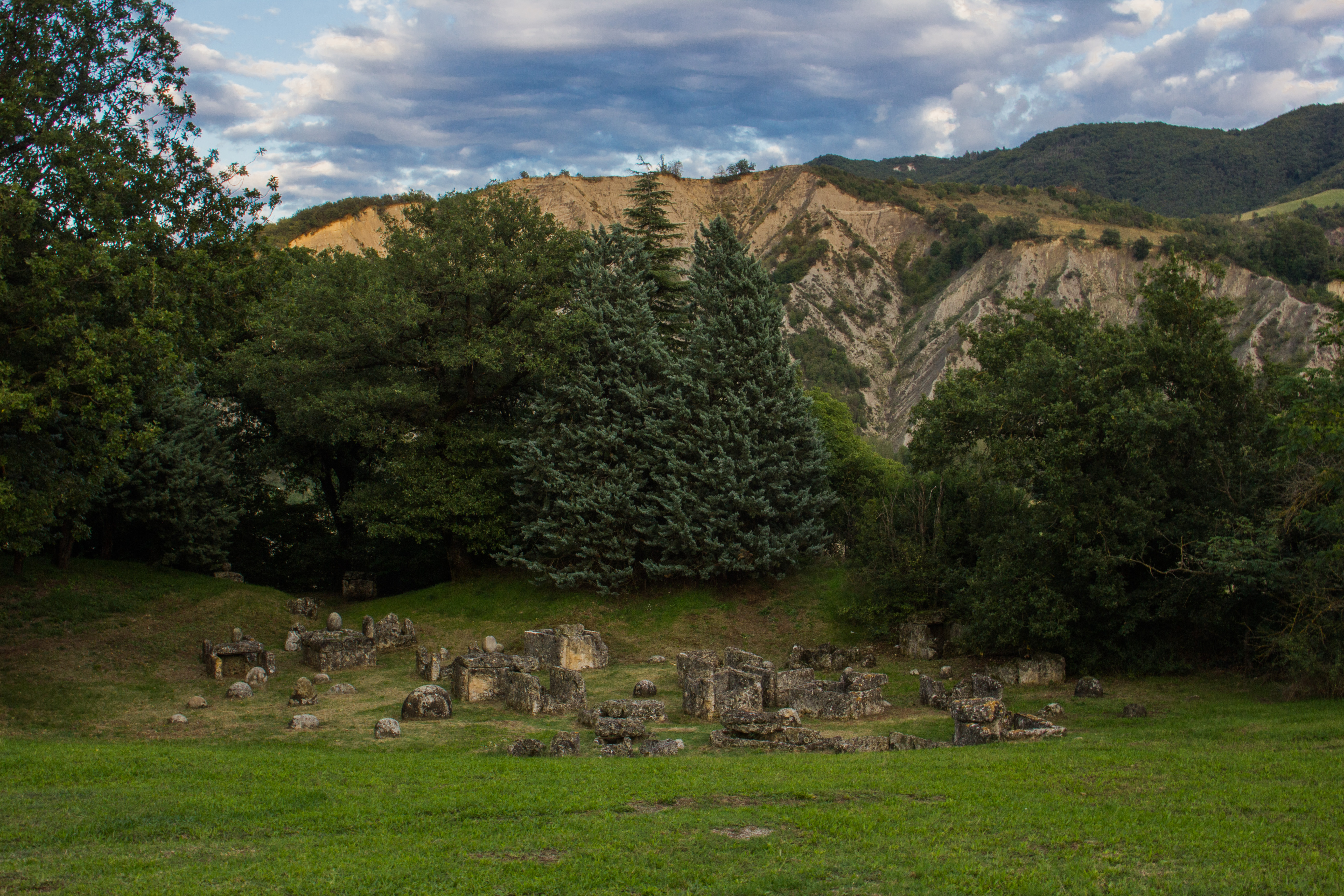 Panoramic view of the etruscan necropolis. This is a photo of a monument which is part of cultural heritage of Italy.